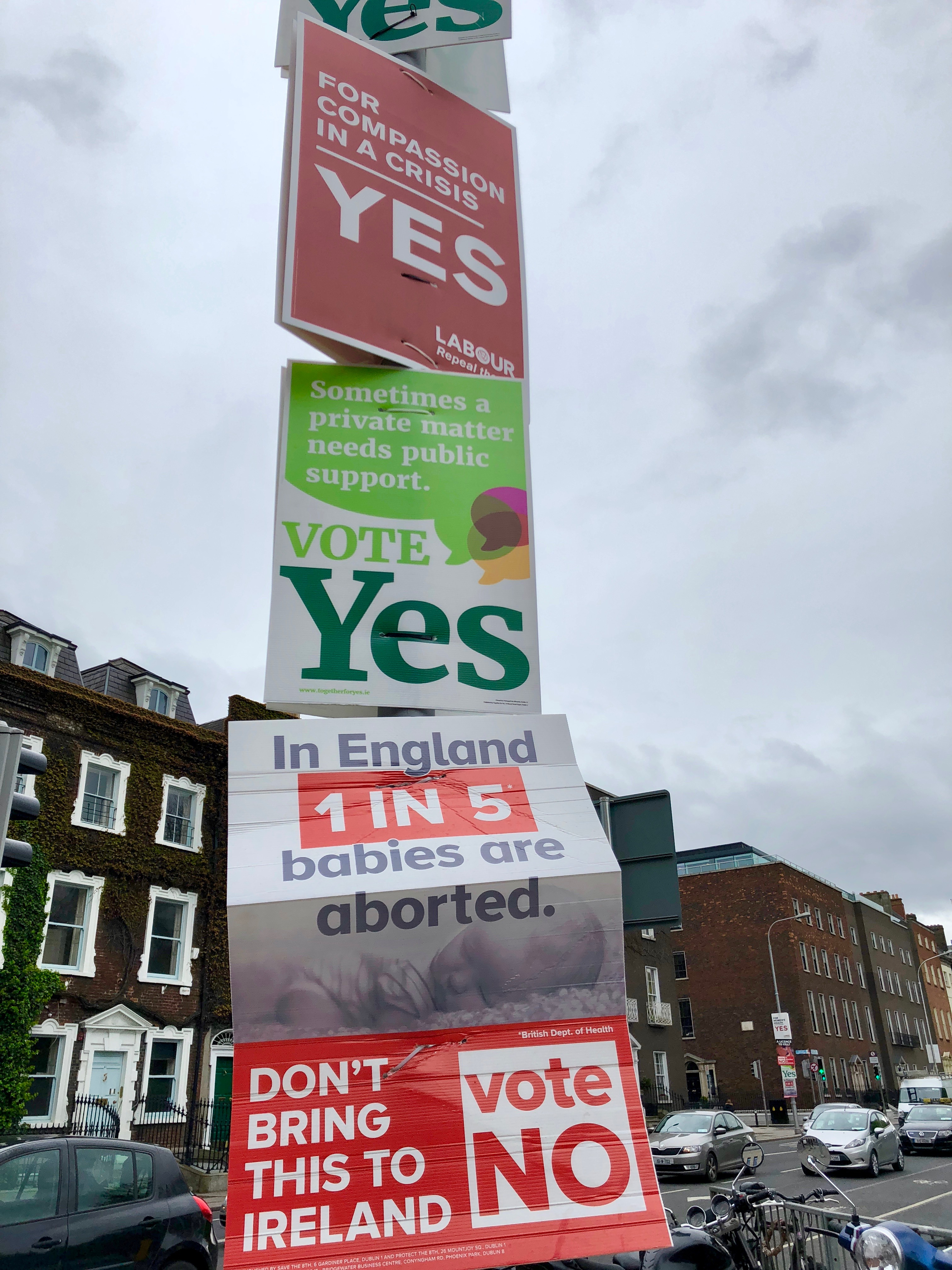 Abortion Referendum Campaign Posters in Dublin, May 2018